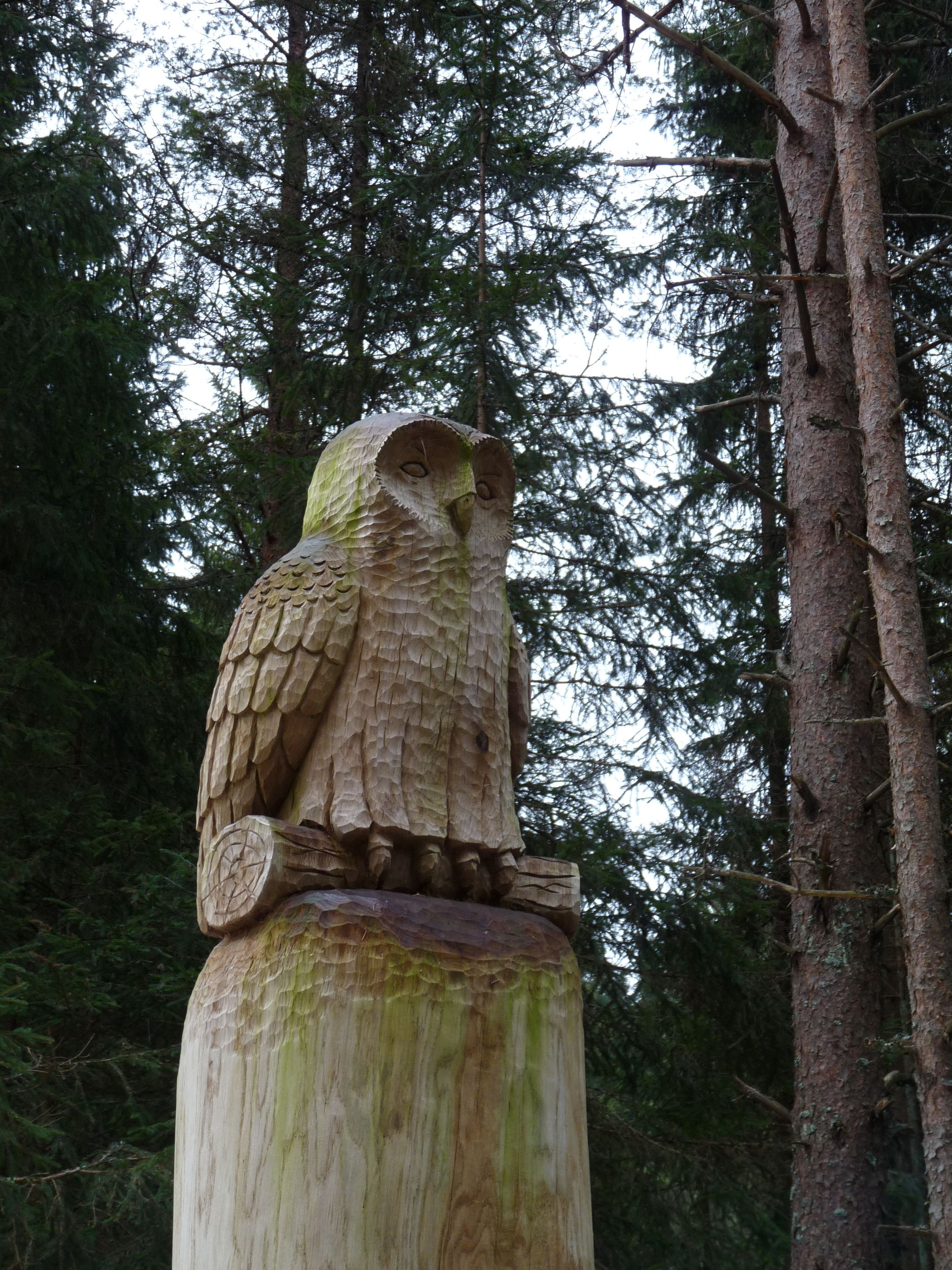 Areál lesních her (Area of Forest Games) is an educational trail near the municipality of Stožec, Prachatice District, South Bohemian Region, Czech Republic. Its symbol is the Strix uralensis.